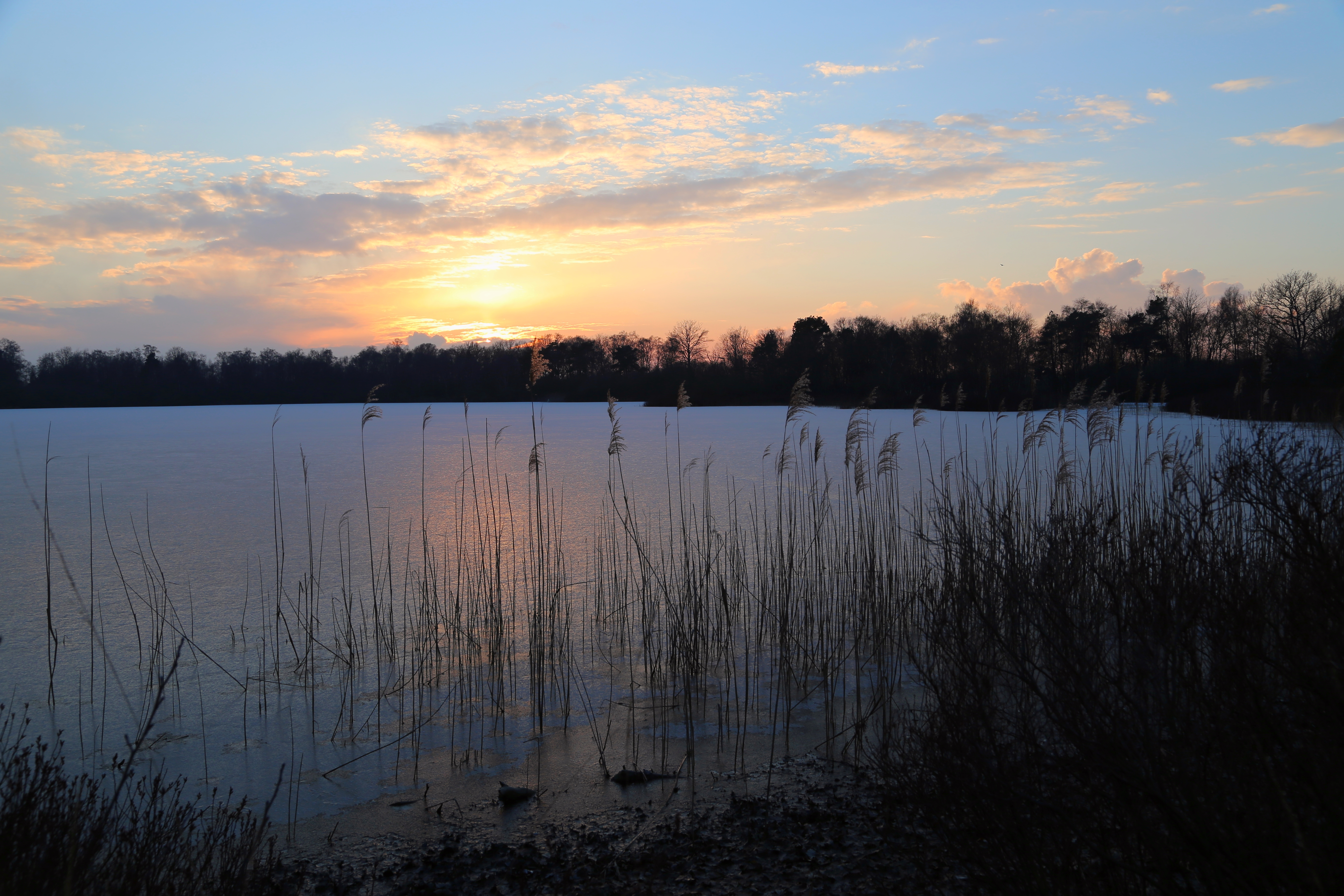 Erdfallsee in the nature reserve „Heiliges Meer“ in Hopsten, Kreis Steinfurt, North Rhine-Westphalia, Germany.